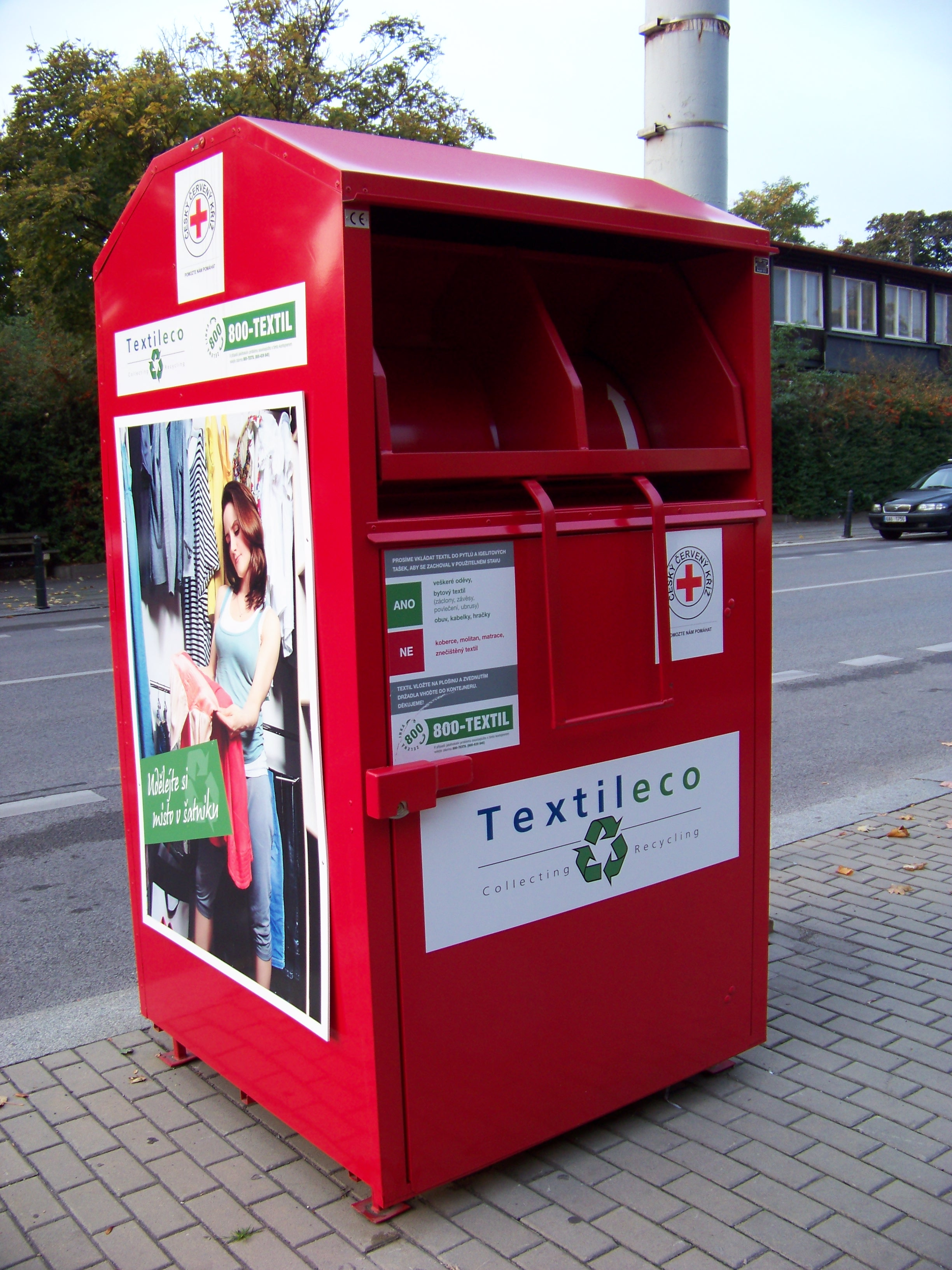 Prague-Střešovice, the Czech Republic. Na Ořechovce 250/30a, a textiles gathering box of Textileco.